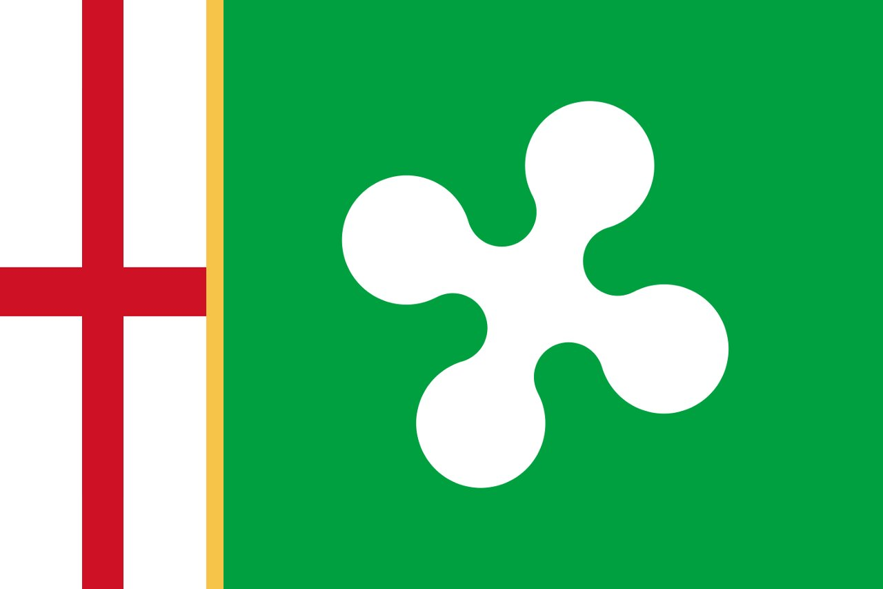 Proposal of a new flag of Lombardy presented by the alliance of the center-right in 2015.